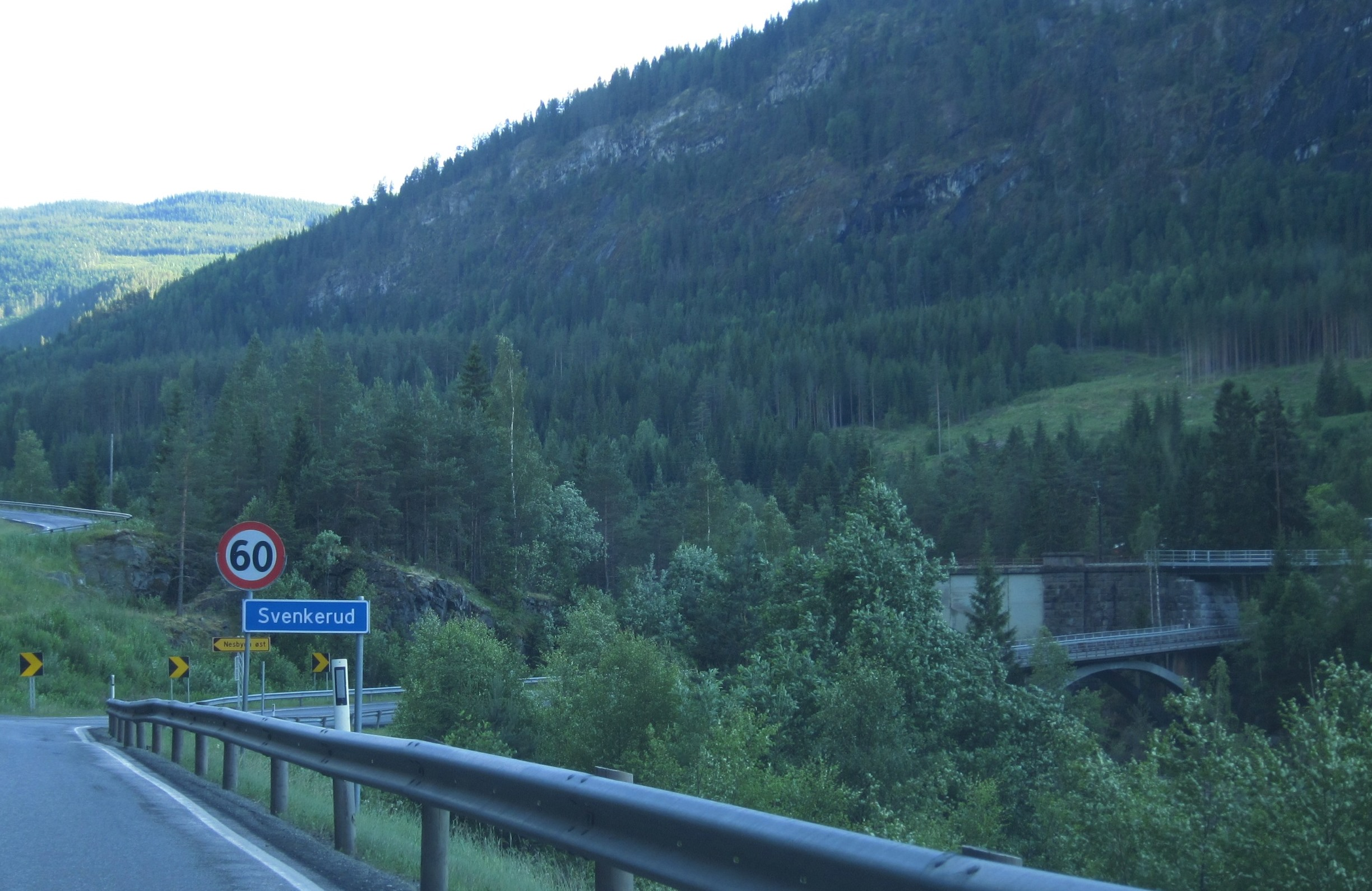 Route 7 and Bergensbanen railway at Svenkerud, Buskerud, Norway